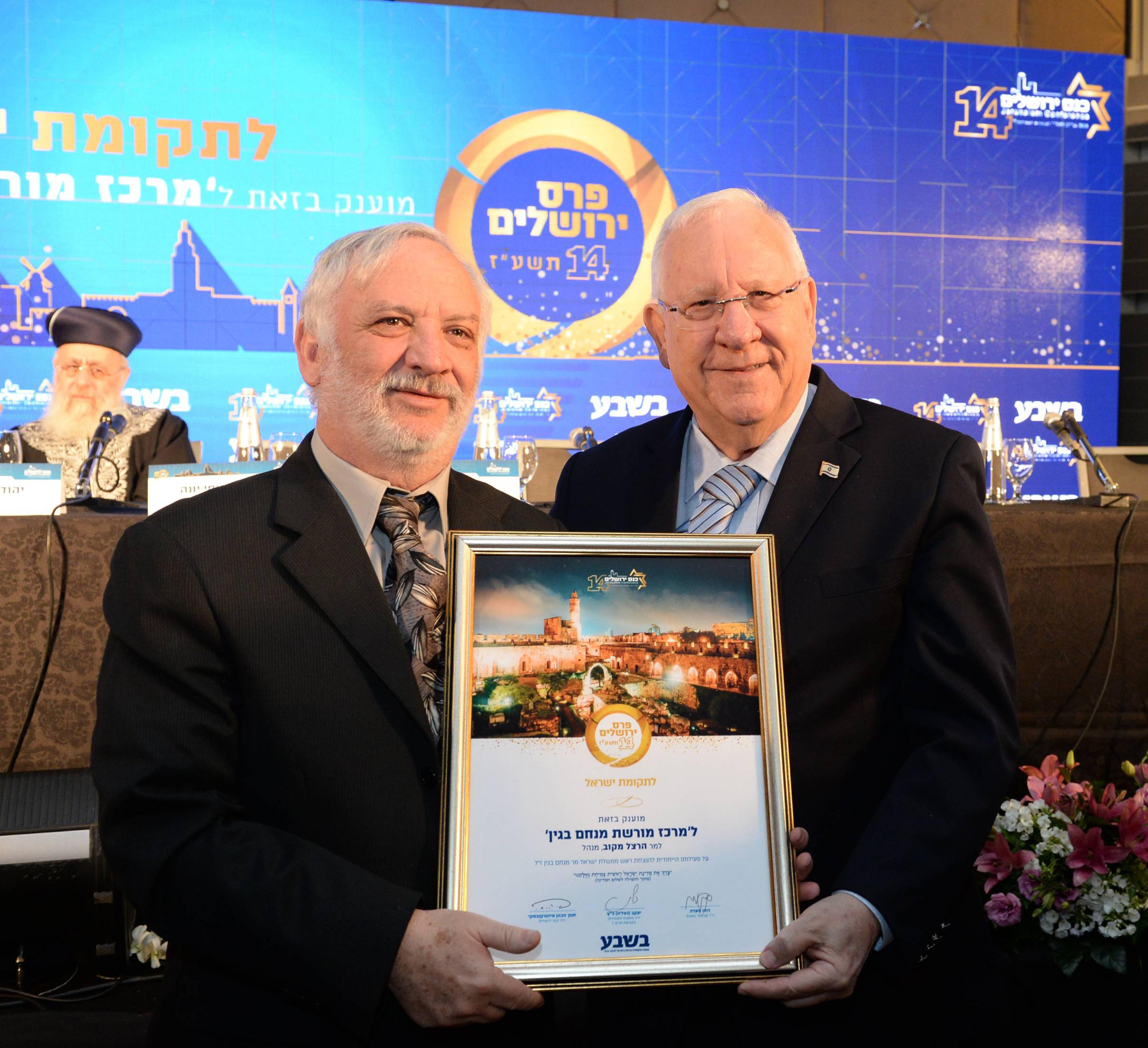 The President of Israel, Reuven Rivlin, opened the 14th Jerusalem Conference of «BeSheva» group. Monday, February 13, 2017. Photo Credit: Mark Neyman / GPO.